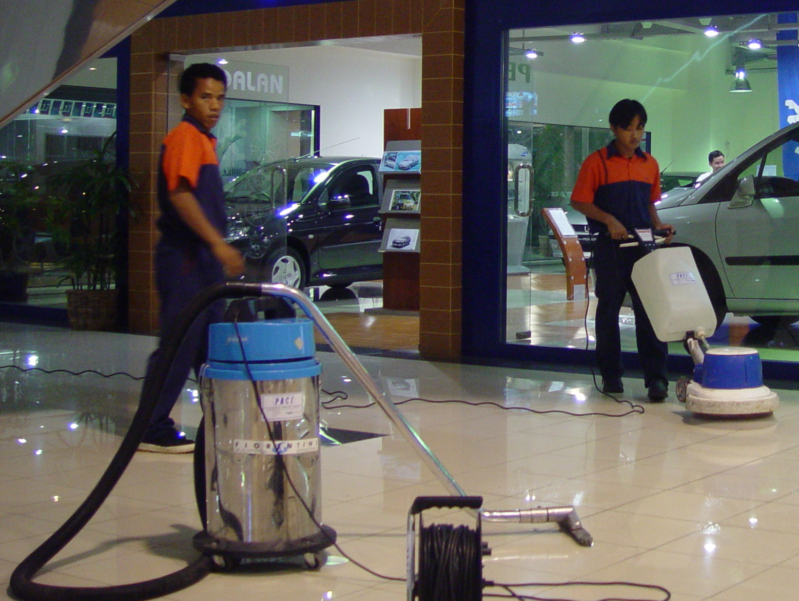 The auto-mall in Jakarta, Indonesia.